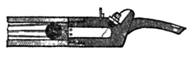 Delvigne system